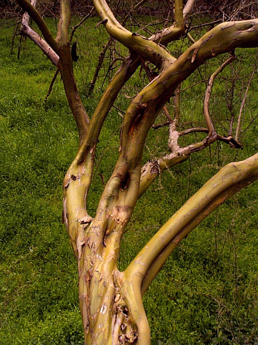 Tree in Boyce-Thompson Arboretum, east of Phoenix, Arizona. Photograph taken by me.